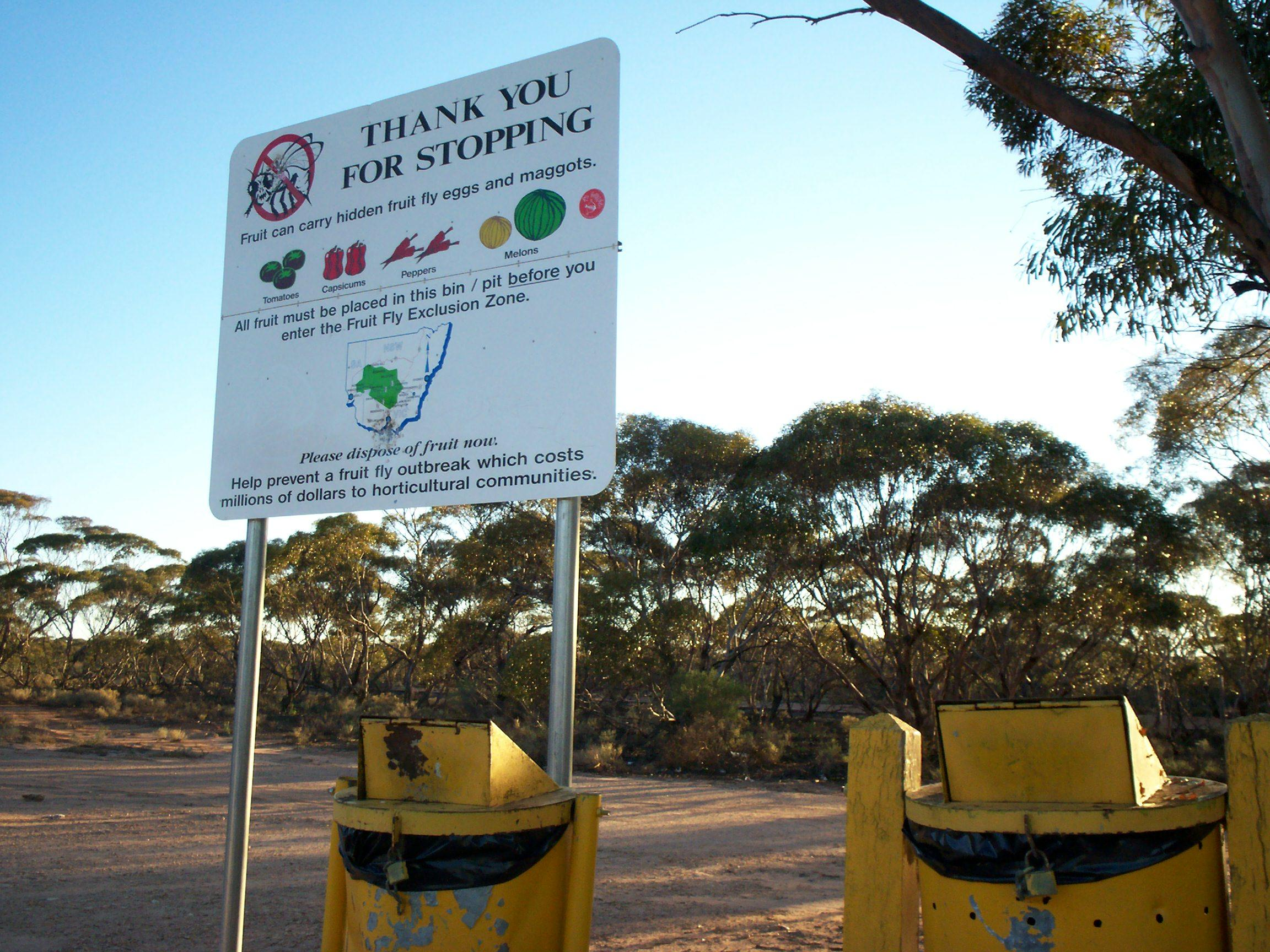 Fruit fly exclusion zone, near Mildura, Victoria, Australia. Photograph taken by myself. Licensing Category:Images of Victoria